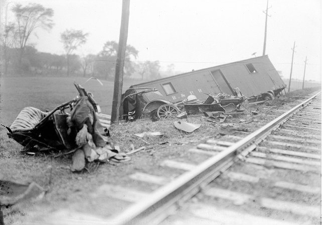 Fatal car accident in Spencerport, involving the BR&P railway